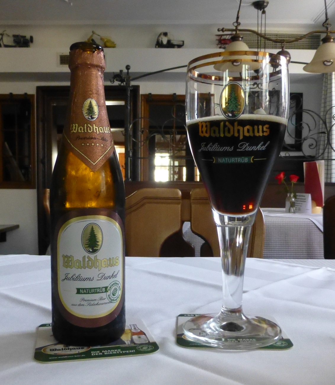 Dark beer Waldhaus from Baden-Württemberg